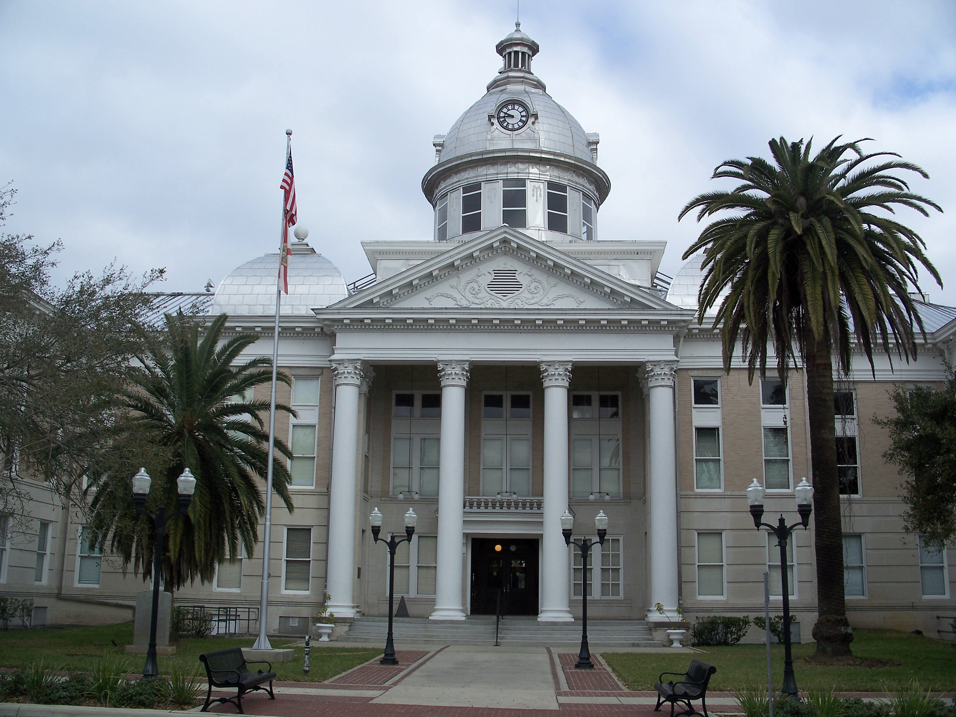 Bartow, Florida: Old Polk County Courthouse, now home to the Polk County Historical Museum.